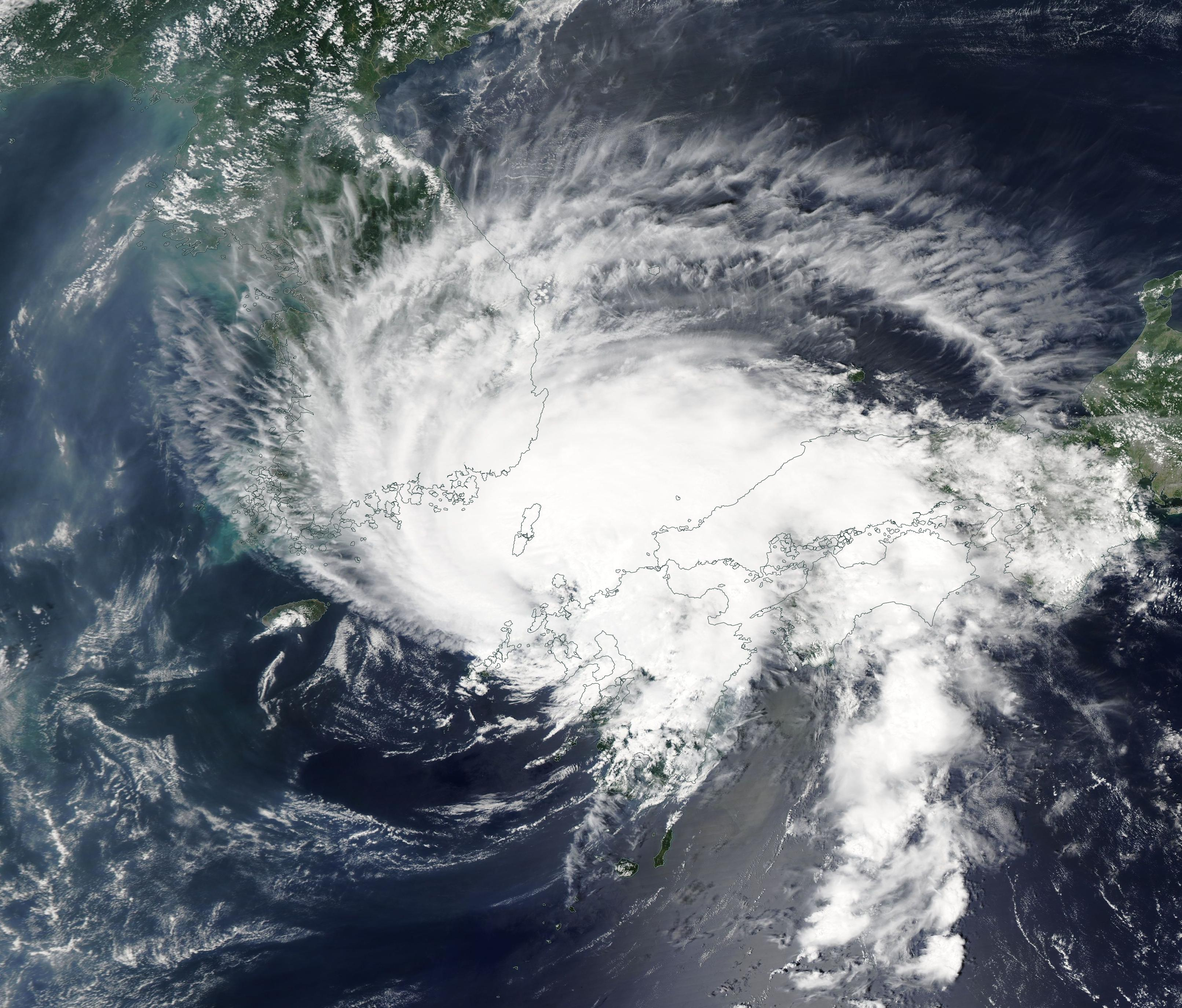 Tropical Storm Francisco traversing the Korea Strait on August 6, 2019.